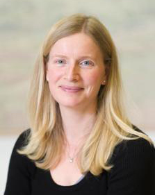 Portrait released in support of on-going improvement to Wikipedia articles, refer to